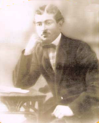 Zulfugar Ahmedzade (1989-1942), famous Talysh poet of Azerbaijan.